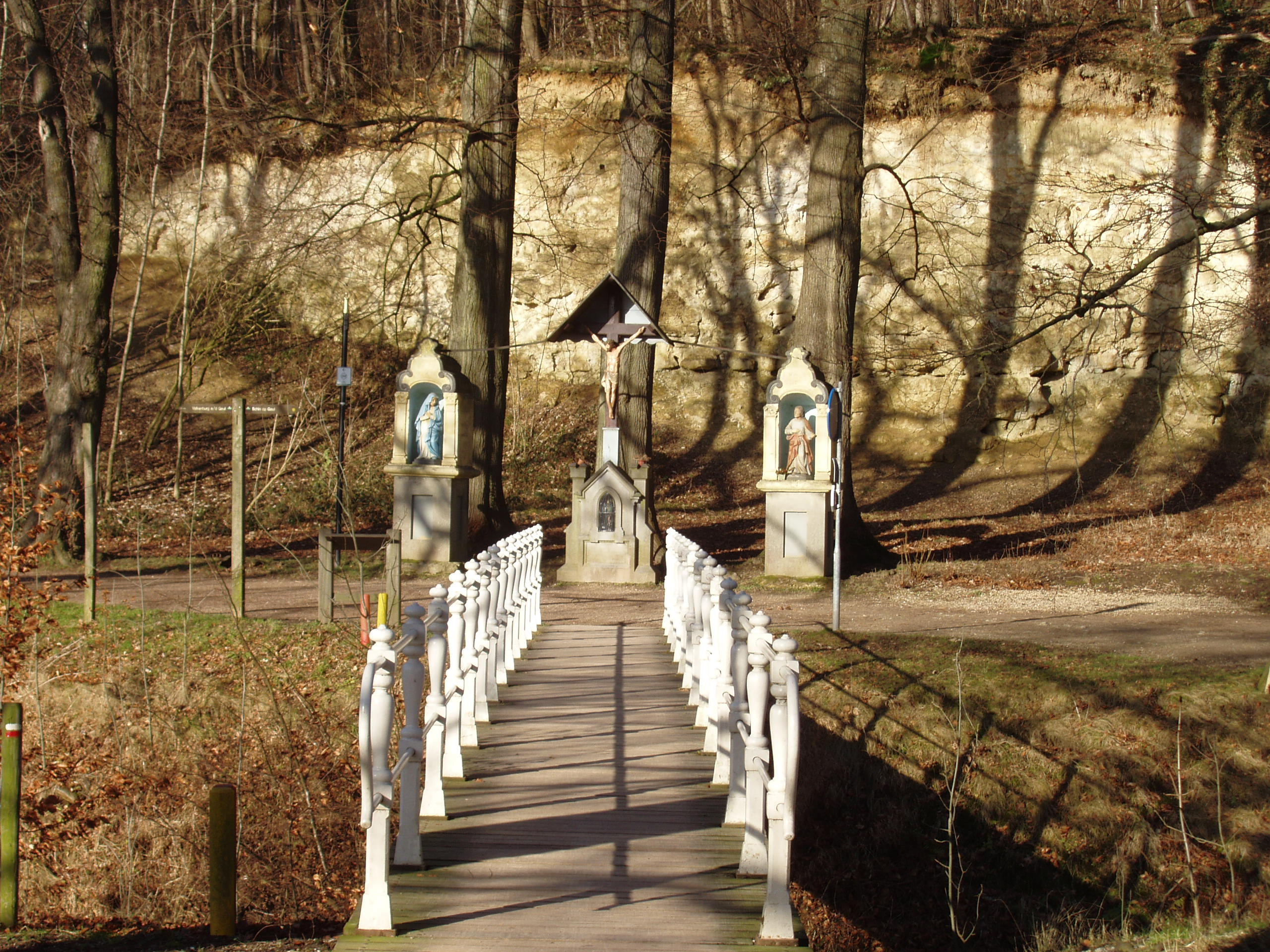 De Drie Beeldjes, Oud-Valkenburg, Limburg, Netherlands